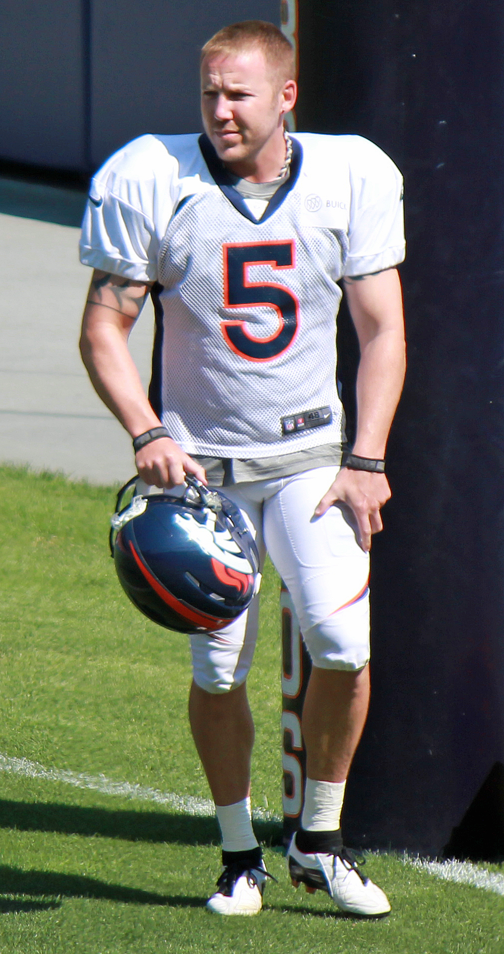 Matt Prater, a player in the National Football League.